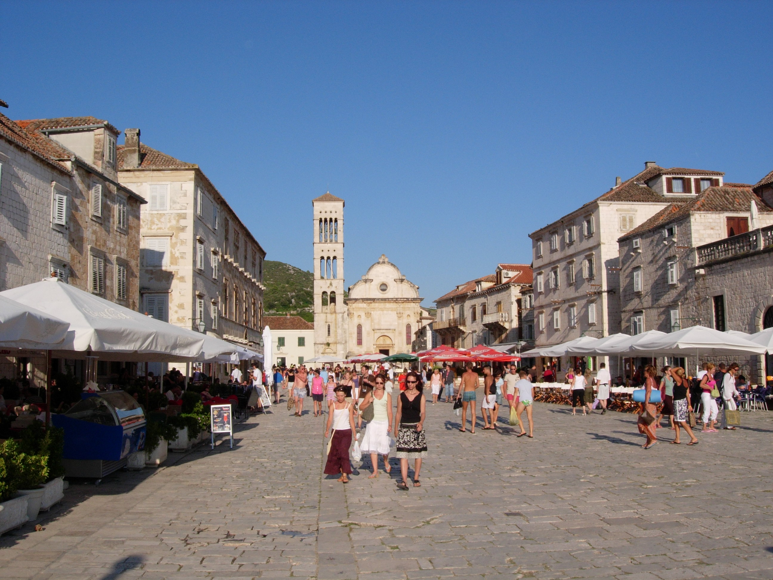 Hvar, main square